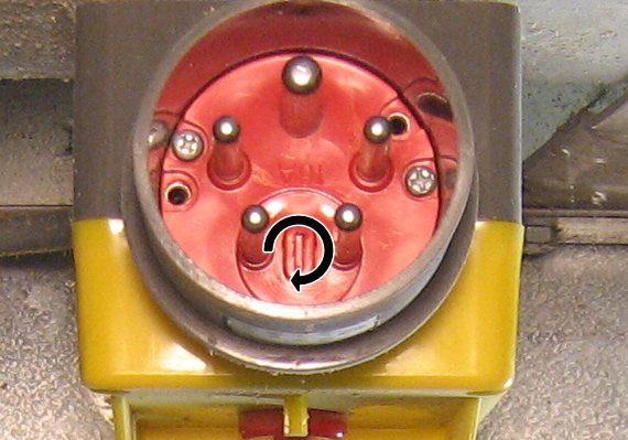 Phase changing plug